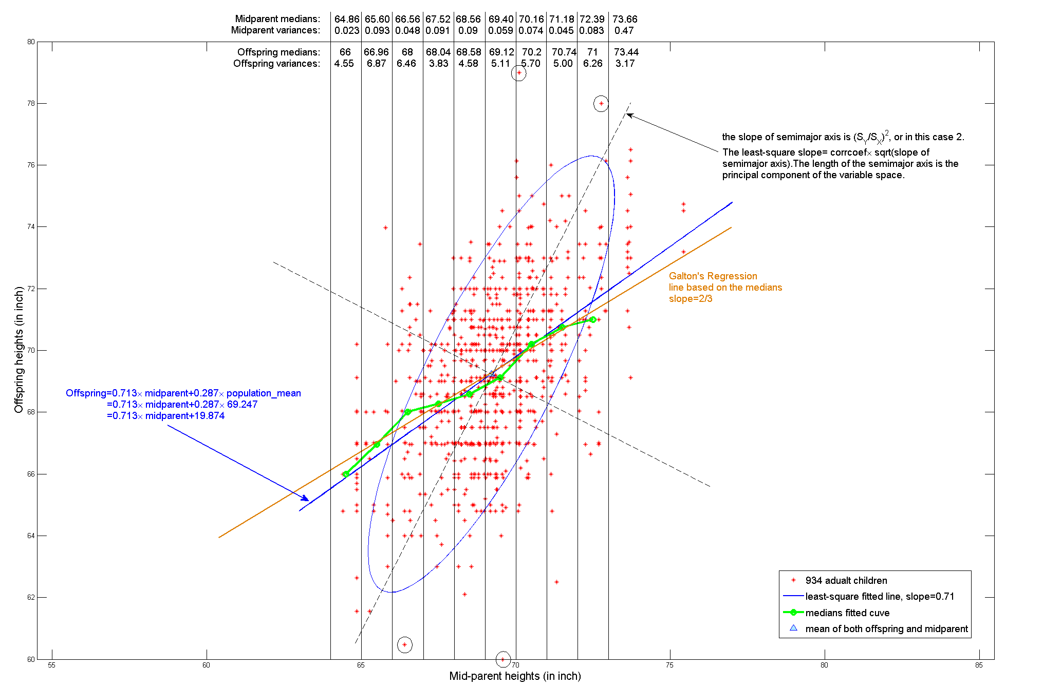 The horizontal axis is the offspring heights while the vertical axis is their corresponding 'mid-parents' height